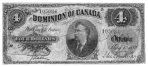 A Canadian four dollar bill issued in 1882, showing the Marquess of Lorne.